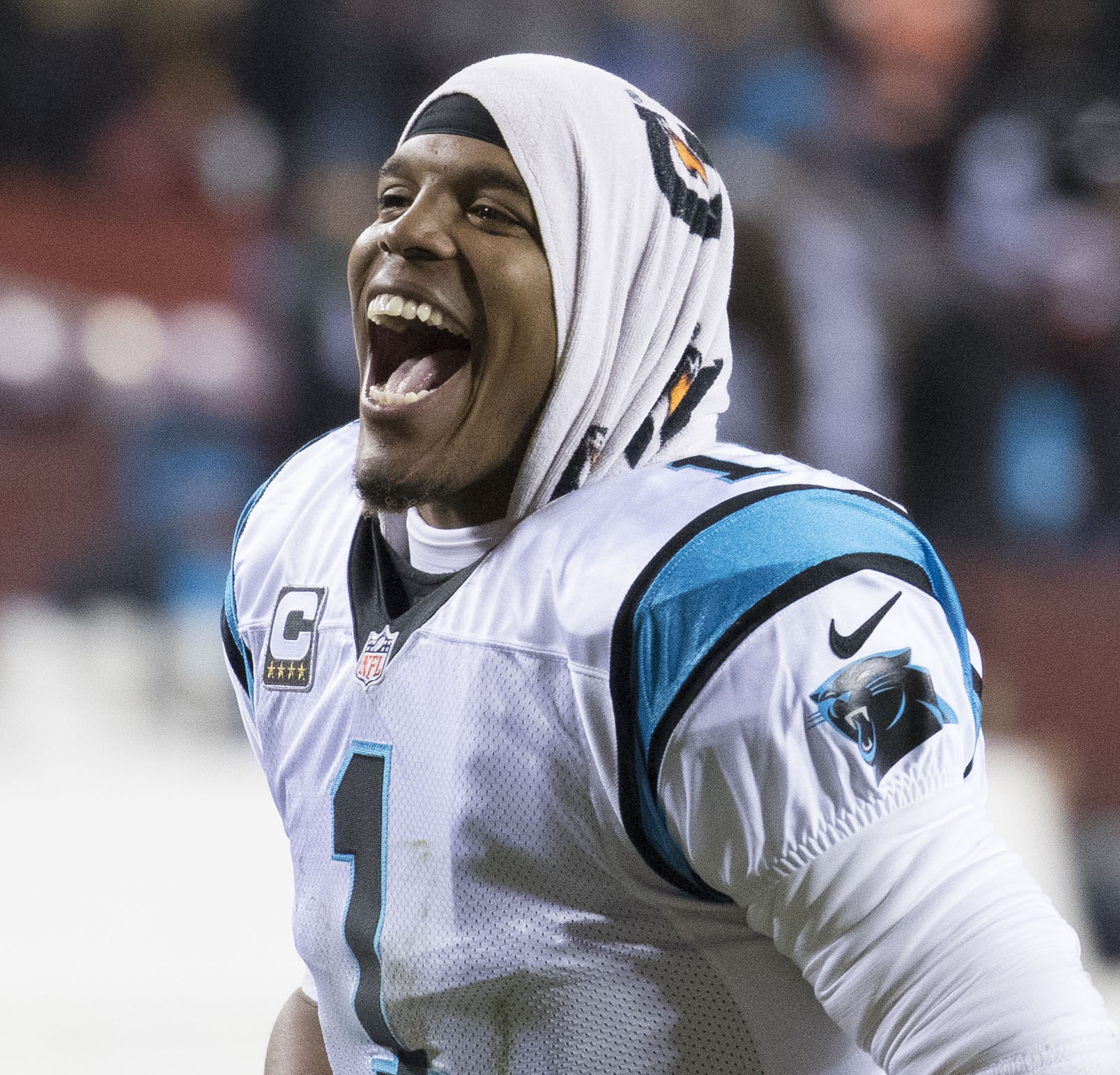 Carolina Panther quarterback, Cam Newton, during a game against the Washington Redskins on December 20, 2016.